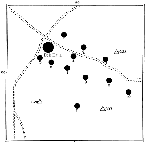 Пещеры монастыря